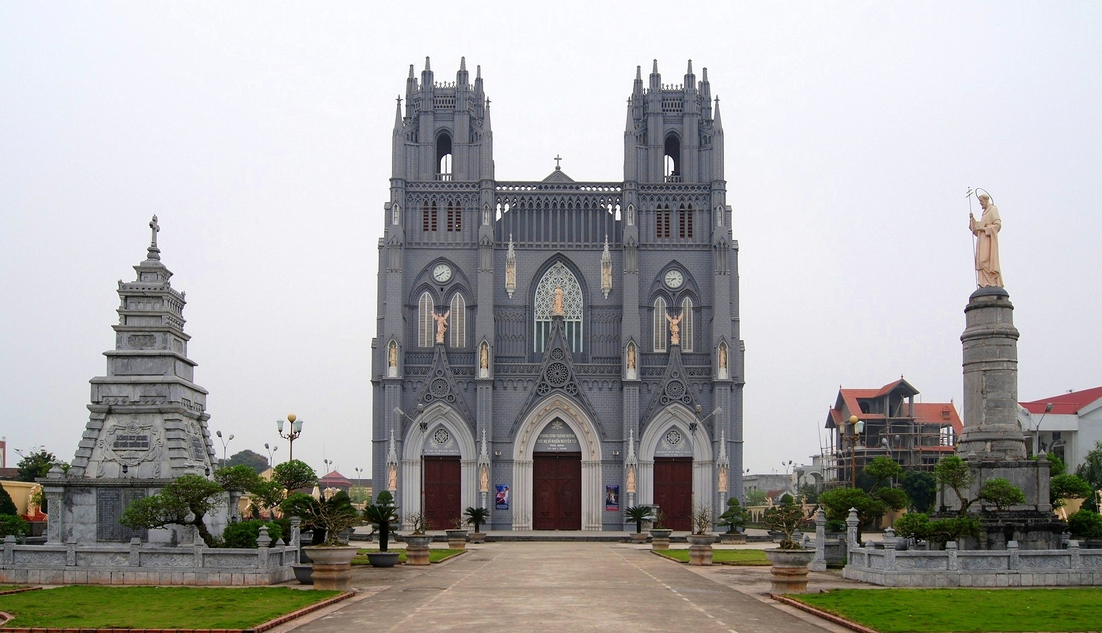 Immaculate Conception church, Nhai Phú. On the left is a martyrs' tomb. On the right, St. Dominic's pillar.